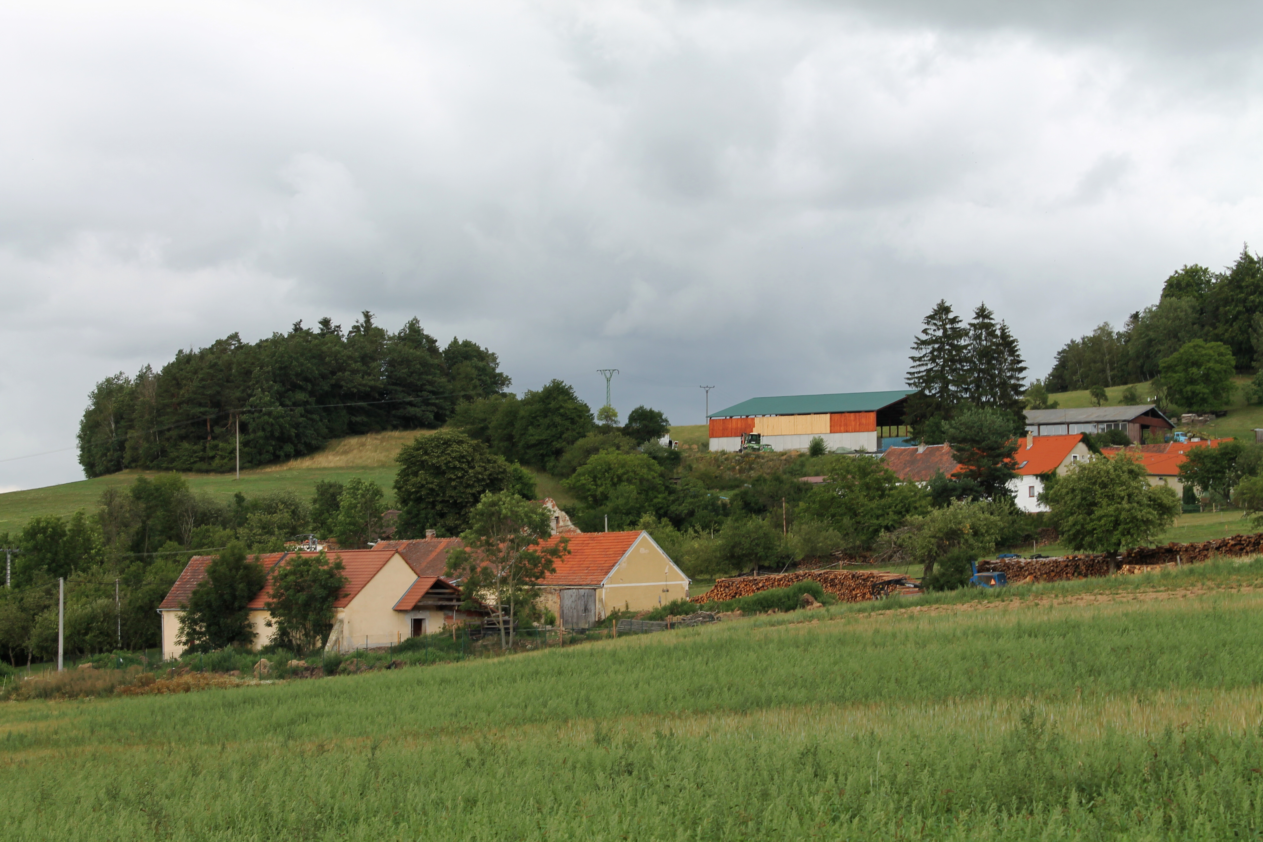 Stranná, Dyjice, Jihlava District, Czech Republic